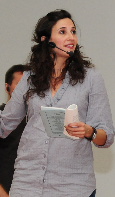 Senior Airman George Minkins, 386th Expeditionary Contracting Squadron, participates in an improv comedy skit with comedians (from left to right) Tim Bagley, Wendi McLendon-Covey and Michaela Watkins Jan. 1, 2010 at an air base in Southwest Asia. The Improv in Iraq Tour III was sponsored by Stars and Stripes. (U.S. Air Force photo/Staff Sgt. Lakisha Croley)